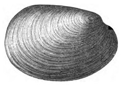 Fordilla troyensis outer shell surface (top) and cast of internal anatomy